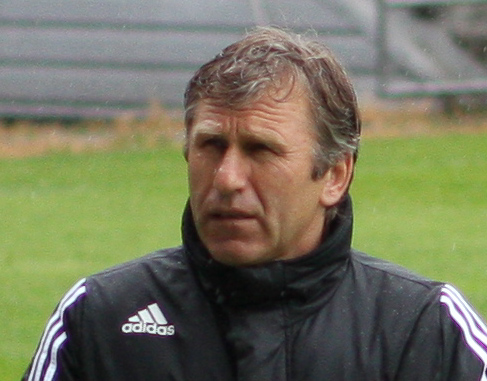 Aleksandrs Kulakovs, Latvian footbal goalkeeper and coach